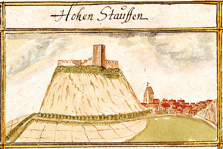 View of Hohenstaufen, Göppingen, from the forest register books created by Andreas Kieser